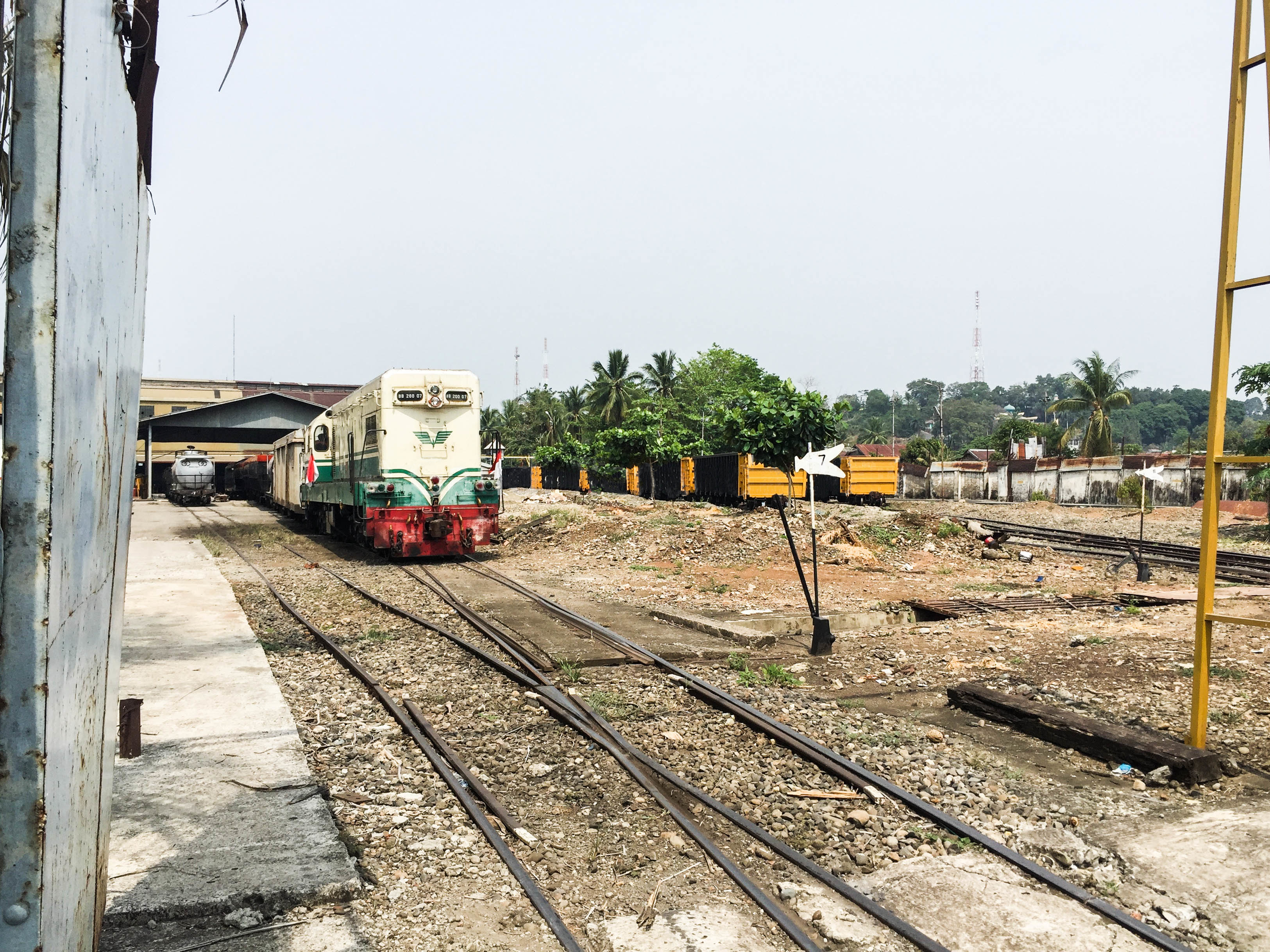 BB 200 07 at Balai Yasa Lahat 1